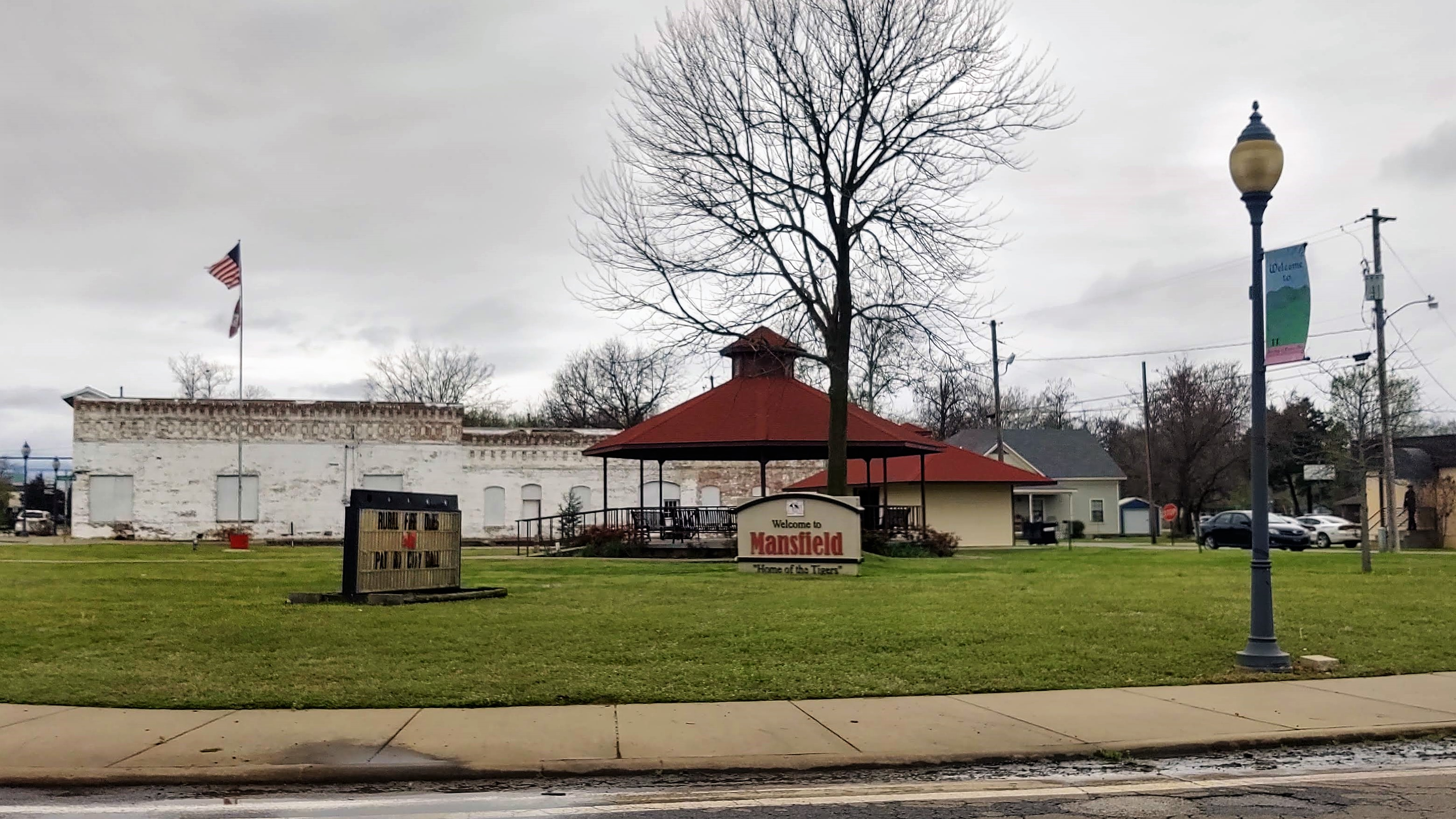 Park and gazebo in downtown Mansfield, AR